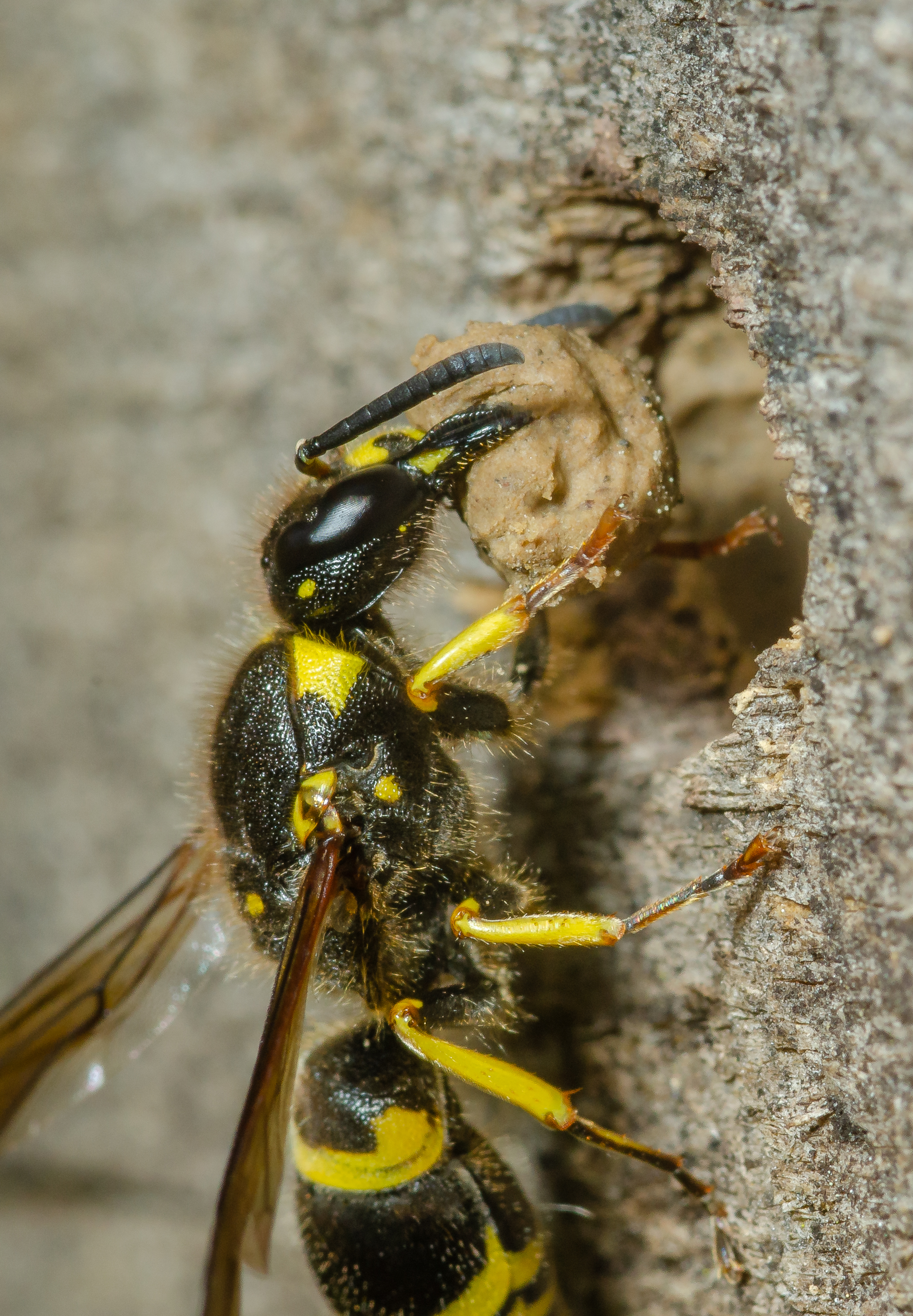 Ancistrocerus nigricornis bringing a ball of clay to close its nest. Image taken in Stuttgart, Germany